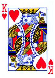 A Playing card: king of hearts , from poker deck, in small png format.